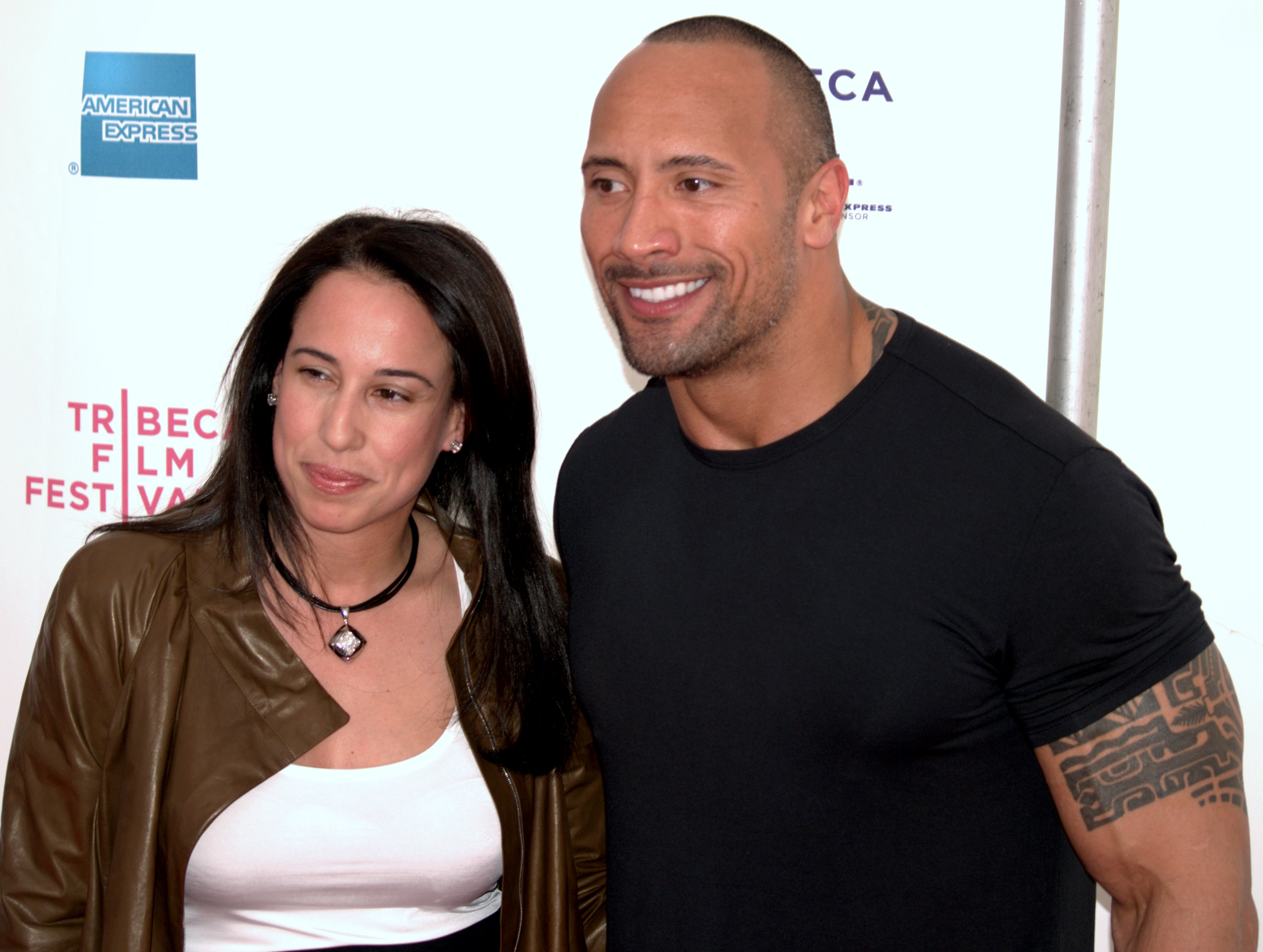 Dwayne Johnson and his ex-wife, Dany Garcia, at the 2009 Tribeca Film Festival. Photographer's blog post about this photo.